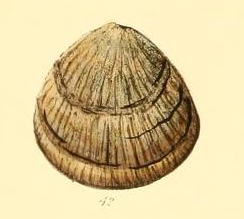 Oblimopa multistriata (Forsskål in Niebuhr, 1775), Limopsidae, Bivalvia, Mollusca